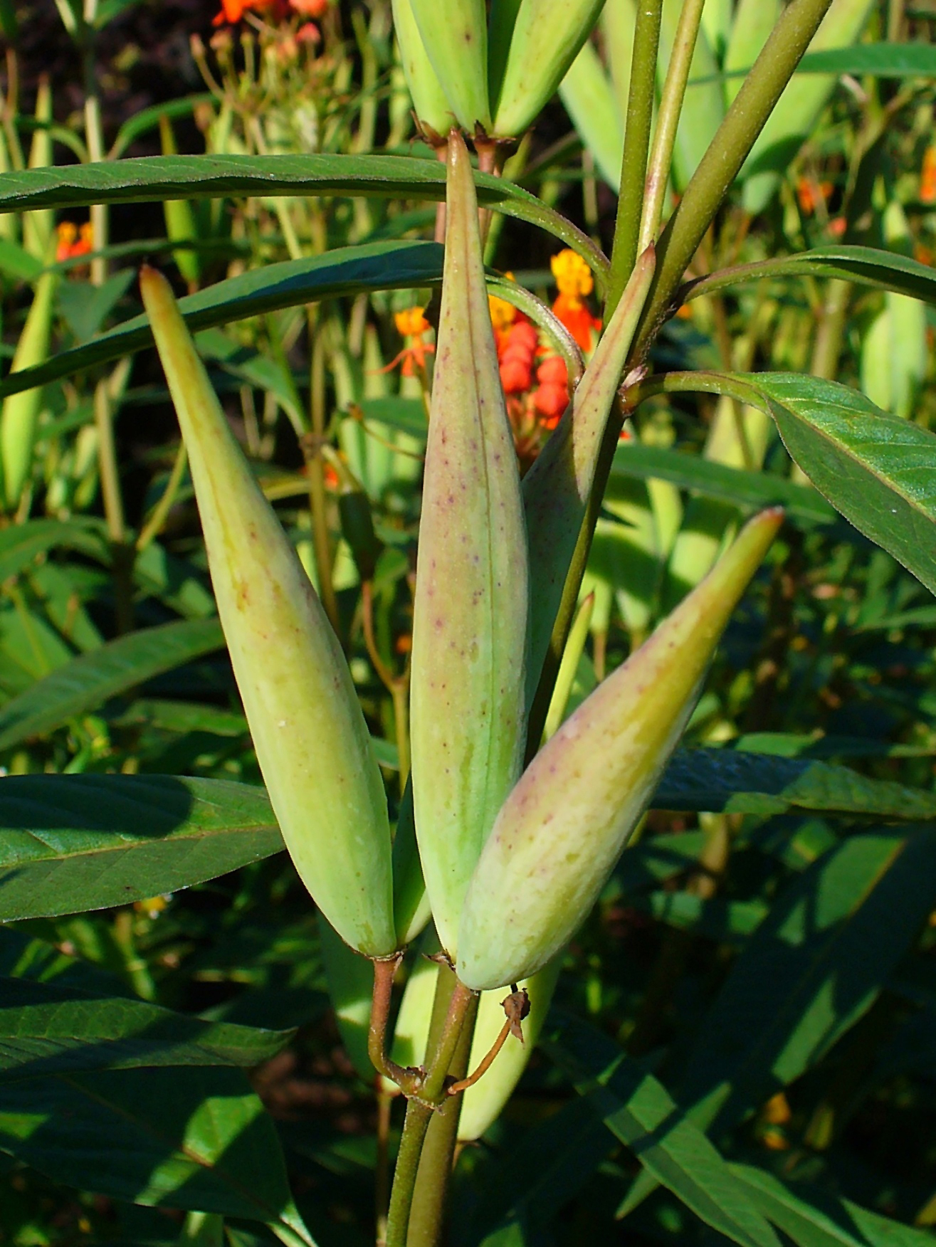 Asclepias curassavica, Apocyanaceae, Mexican Butterfly Weed, Blood-flower, Scarlet Milkweed, fruits. The blooming plants are used in homeopathy as remedy: Asclepias curassavica (Asc-cu.)